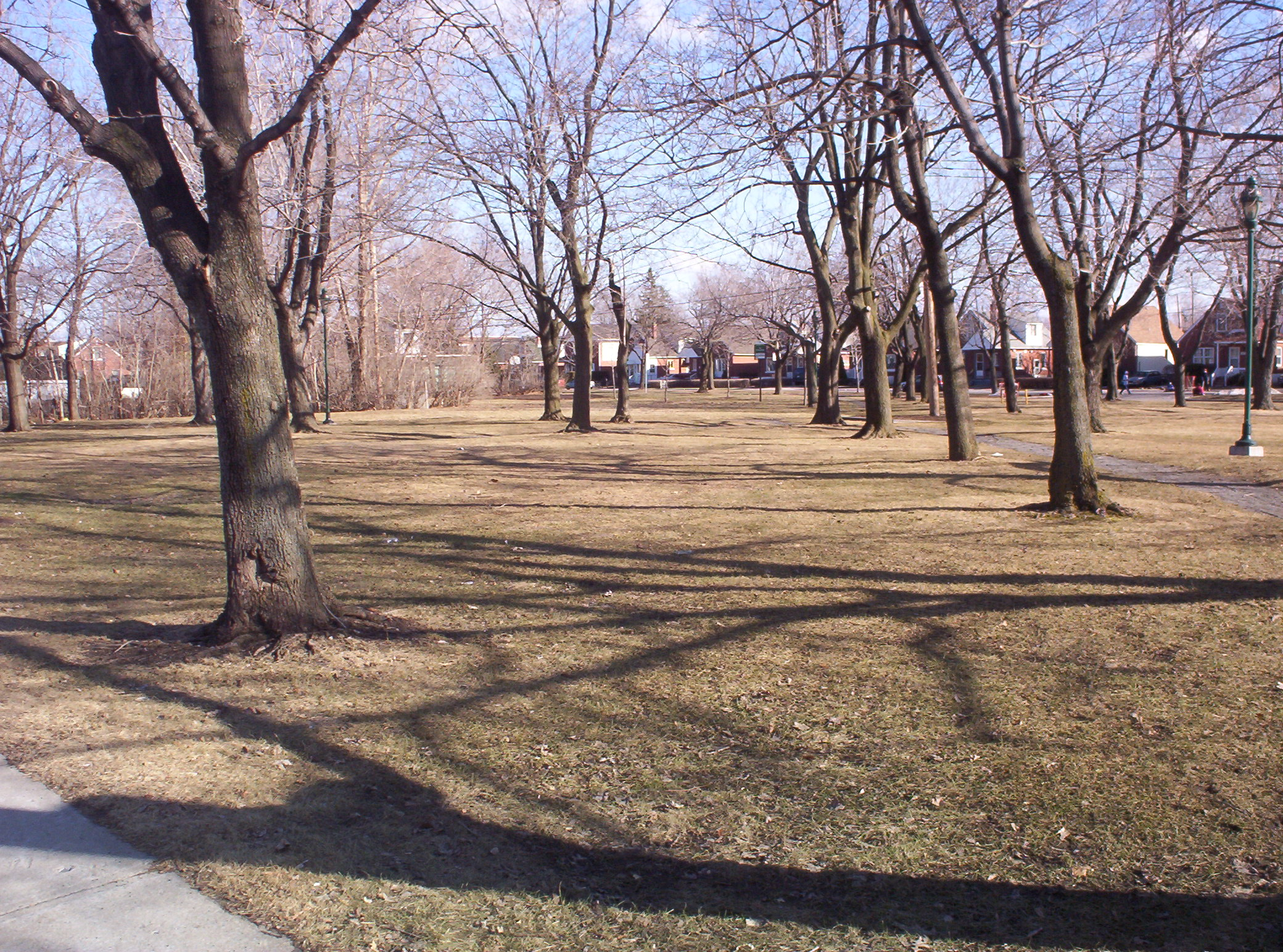 Coronation Park in Montreal (Verdun), Quebec Author:Colocho Date: March 26th, 2006